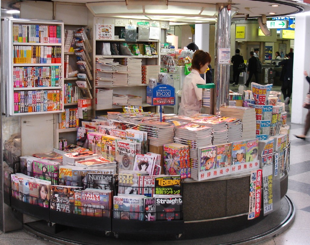 Japanese news-stand